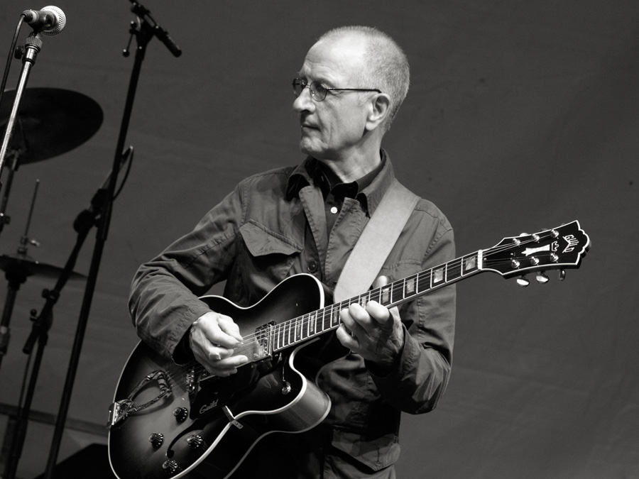 Ali Claudi, Offside Festival Geldern 2008